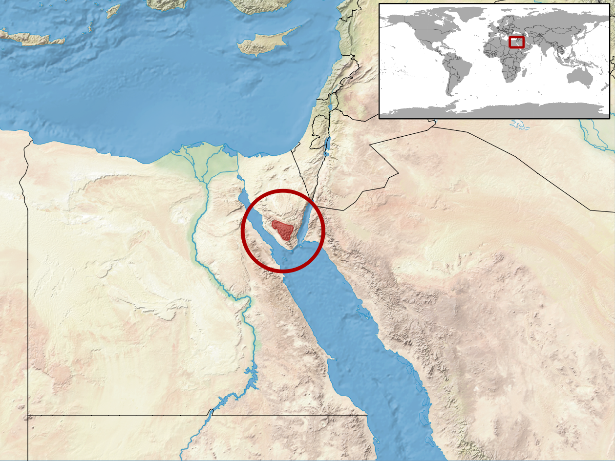 geographic distribution of Hemidactylus mindiae (Native: Egypt)